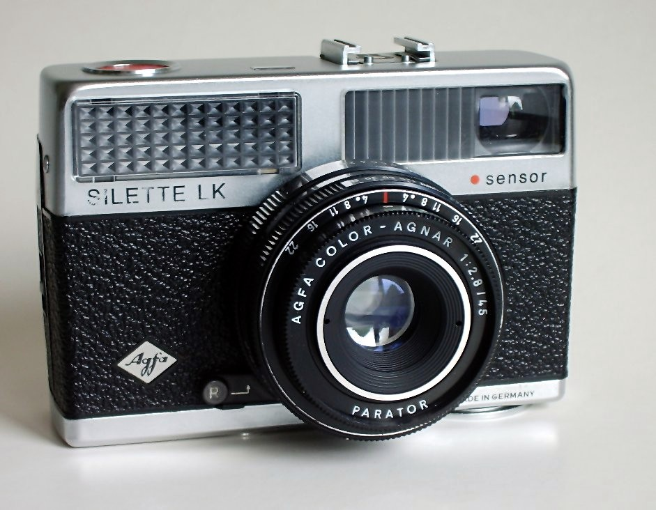 Agfa Silette LK sensor - Compact camera for 135 film. Manual exposure control.